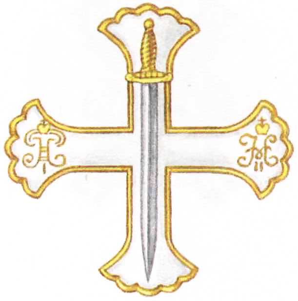 Badge of Semenovsky lifeguared regiment